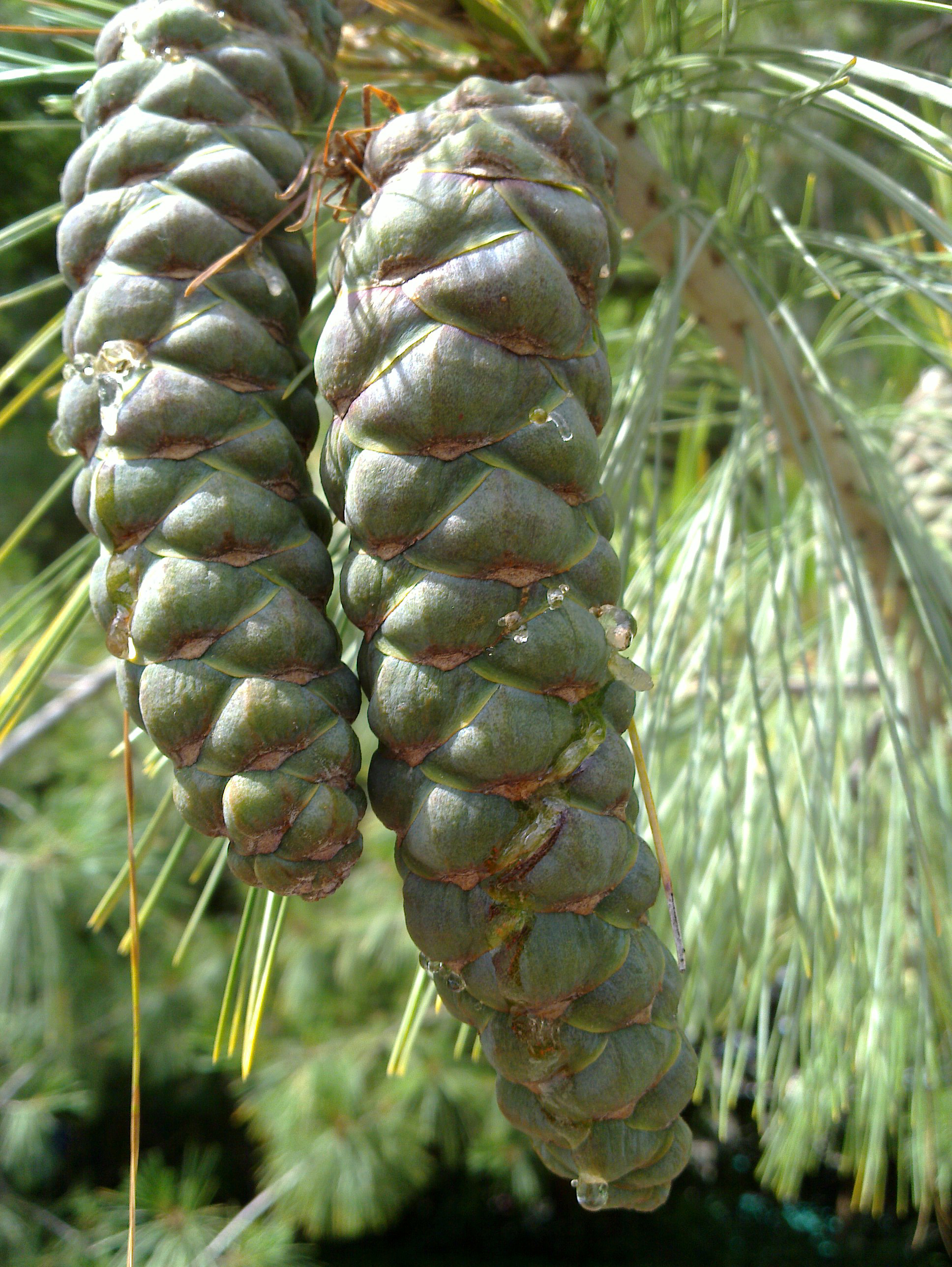 Pinus wallichiana cones. Cultivated, Vandusen Botanic Gardens, Vancouver, Canada.